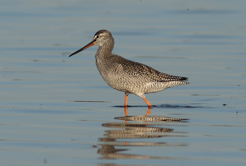 Spotted redshank